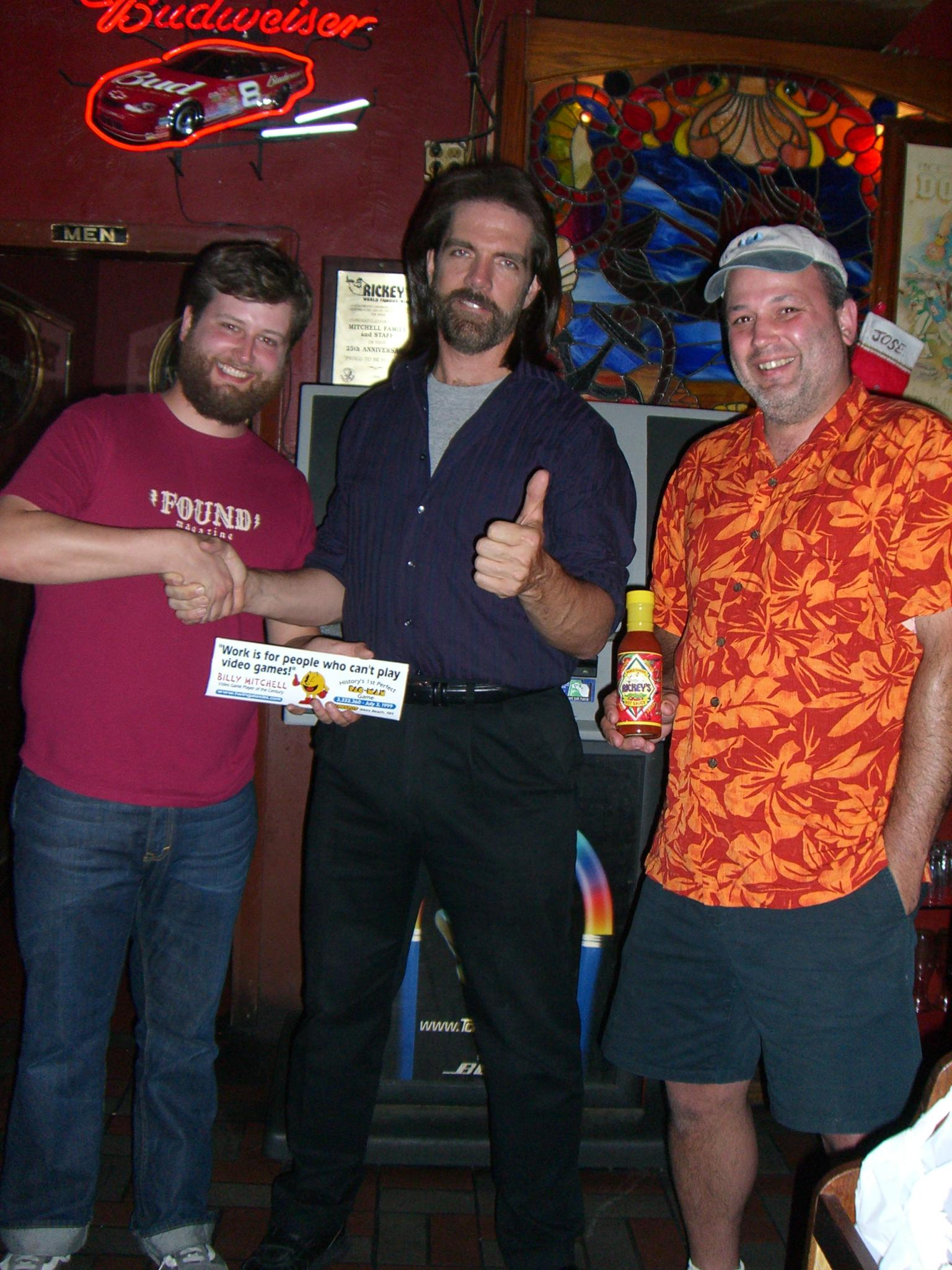 Billy Mitchell on December 19, 2007